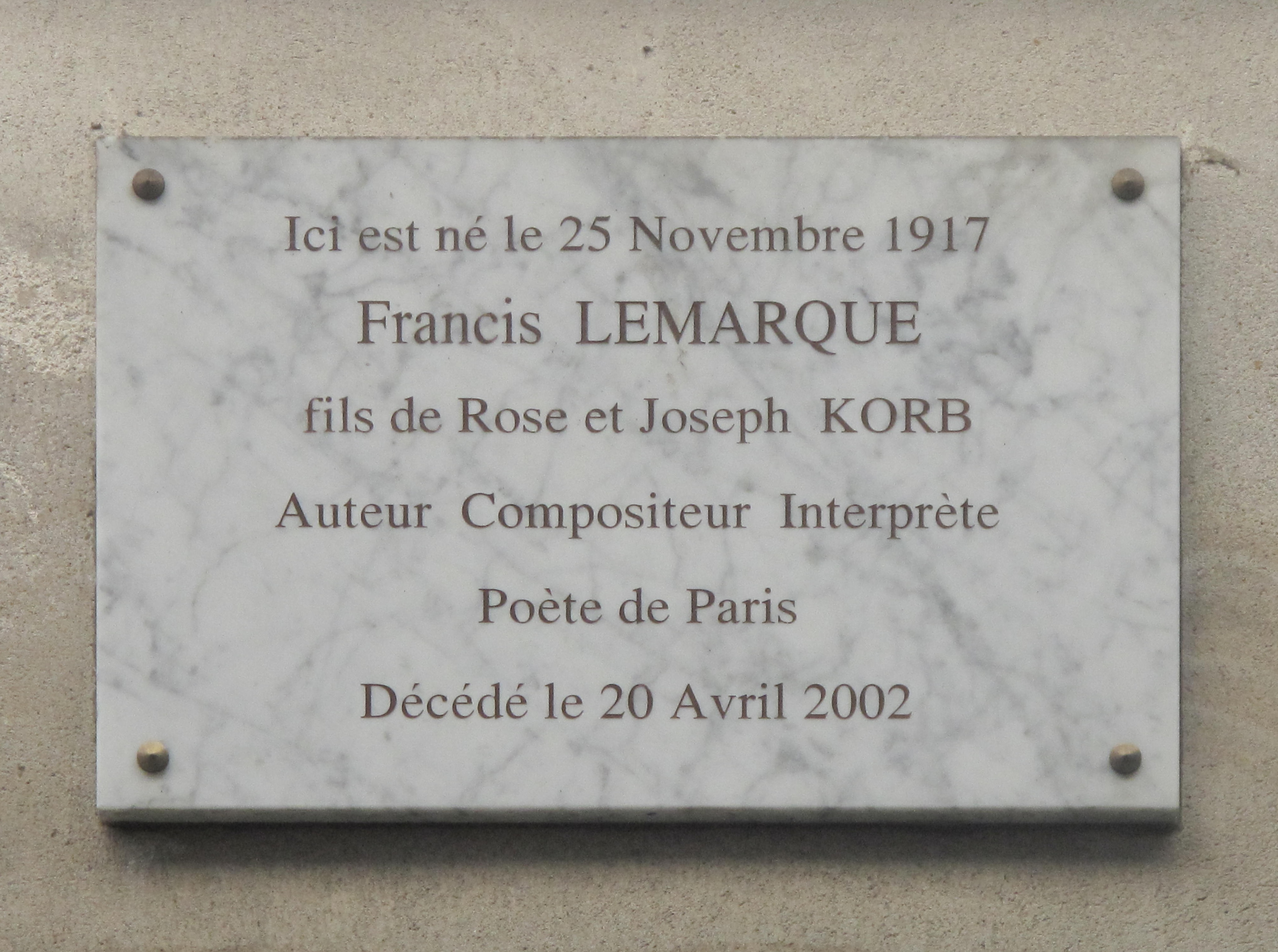 Plaque on the house where was born the french musician and composer Francis Lemarque, 51 rue de Lappe, Paris 11th arr.